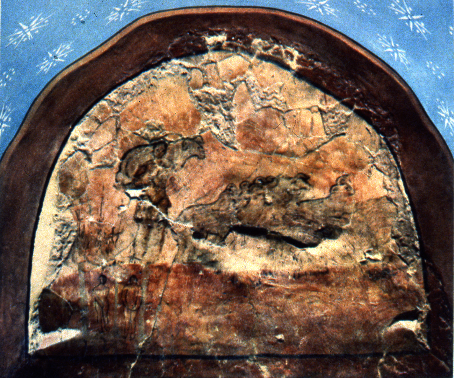 The Good Shepherd, Adam and Eve. Wall painting in the baptistry of the domus ecclesiae in Dura Europos.